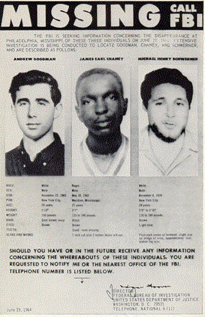 Missing persons poster created by the FBI in 1964, signed by the Director J. Edgar Hoover. Shows the photographs of Andrew Goodman, James Chaney, and Michael Schwerner.